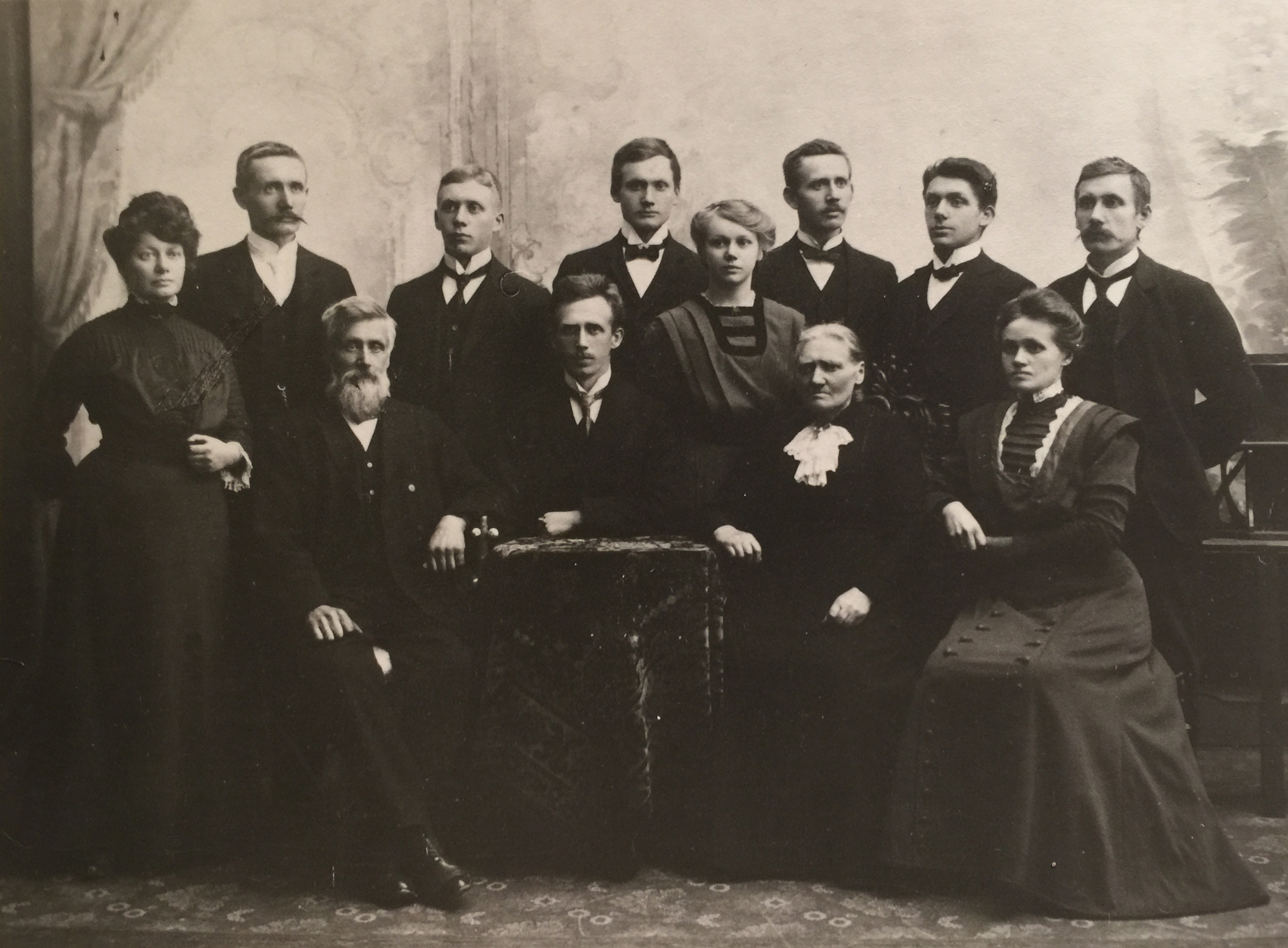 The Norwegian workshop owner, blacksmith, mechanic and musician Thorvald Oftedal with his parents and siblings. Oftedal no. 3 from the right in the back row